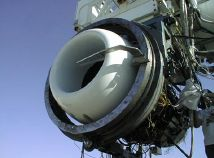 Honeywell TFE731-60 on a test bed